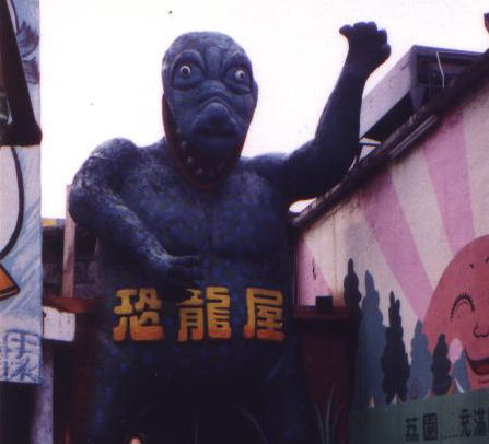 Lai Chi Kok Amusement Park (荔園遊樂場)